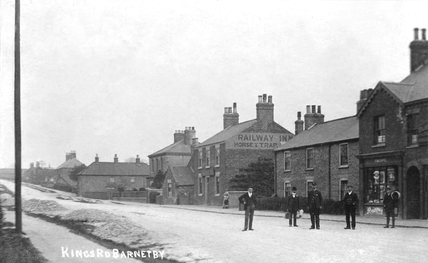 Kings Road, Barnetby, Lincolnshire, England, with the Railway Inn in middle distance. Taken before the 1912 railway bridge was constructed over Kings Road.